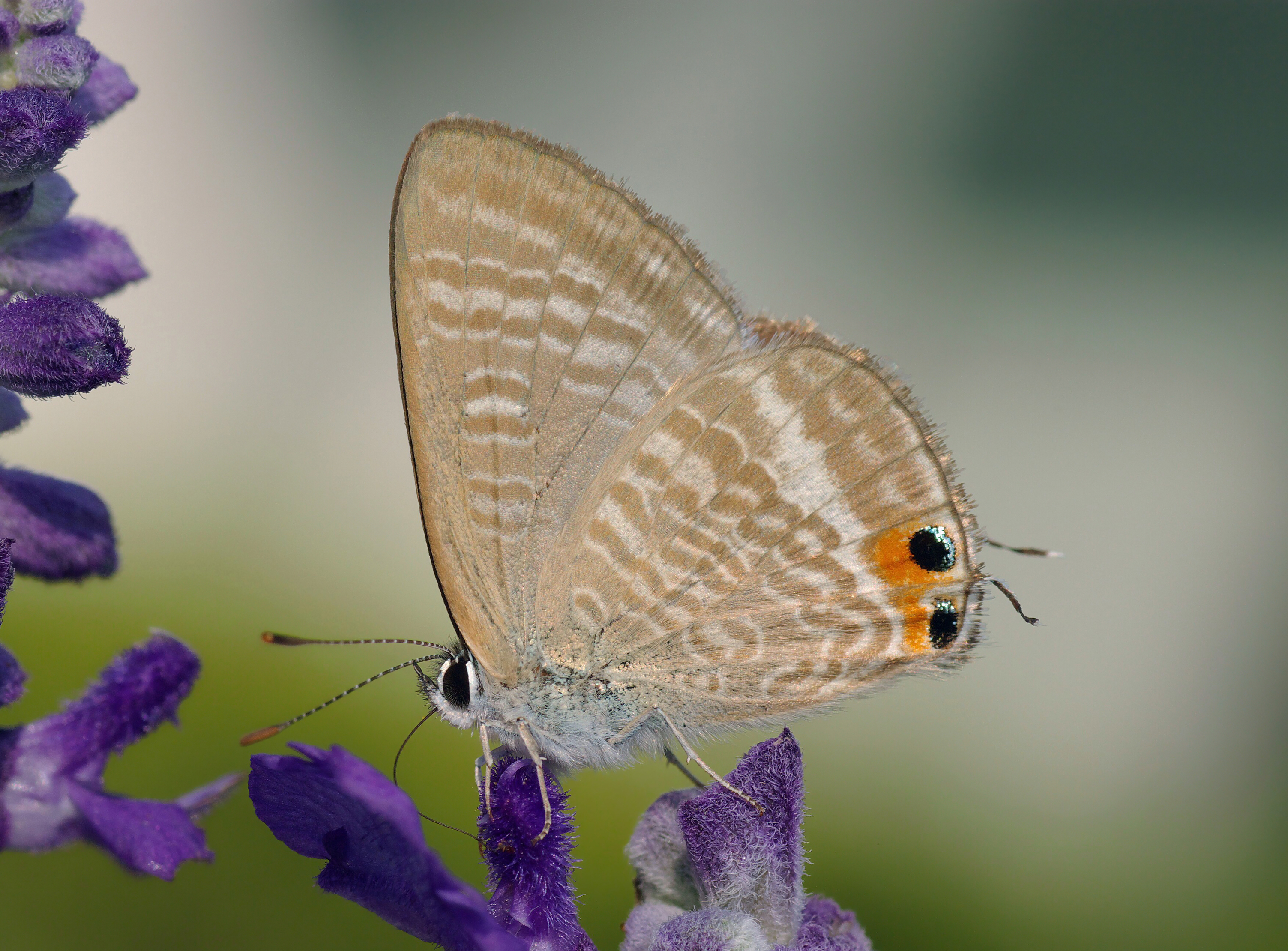 Peablue